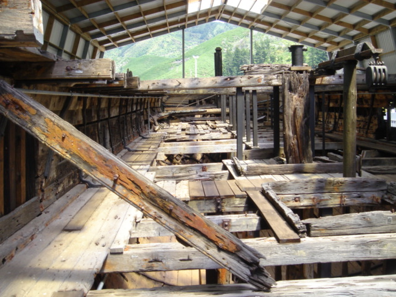 Inside Edwin Fox at Picton, South Island, New Zealand, December, 2004